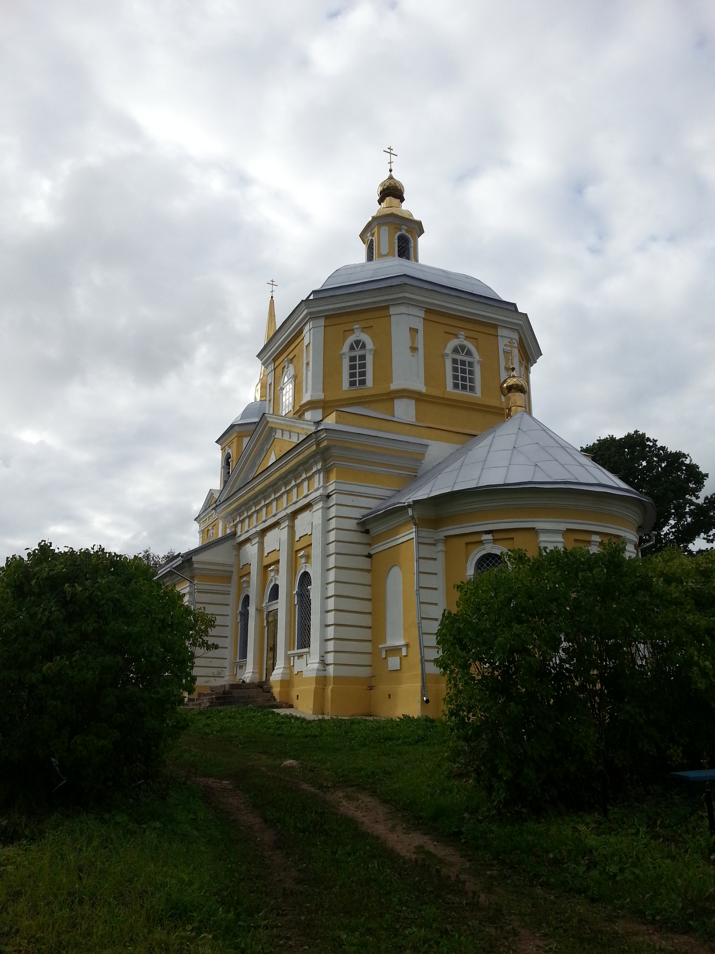 Church of the Annunciation in Porozhki, Novgorod Oblast, Russia